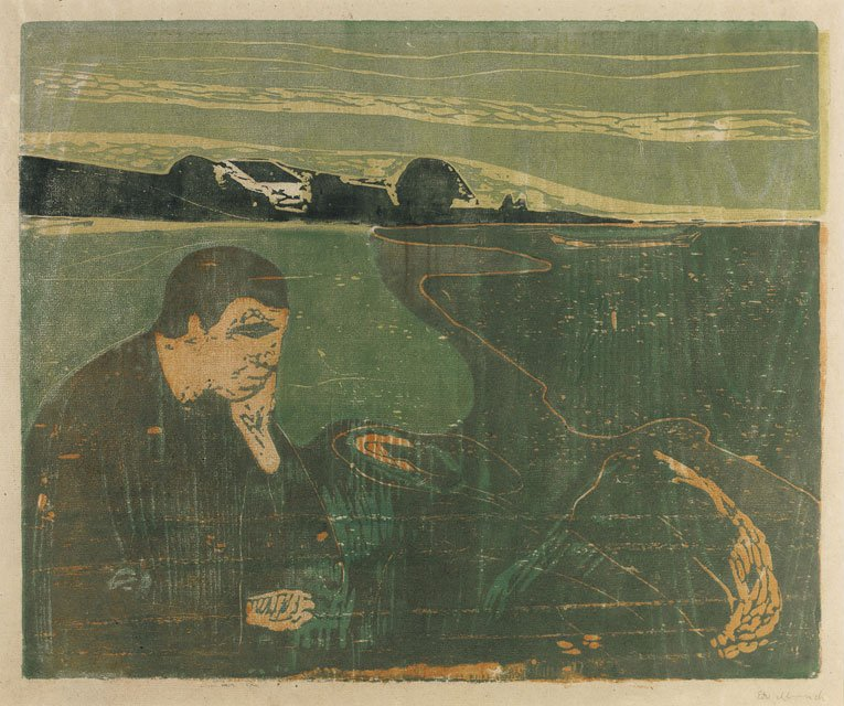 Evening, Melancholy I by Edvard Munch, woodcut, 1896, image 372 by 452 mm, sheet. 422 by 600 mm